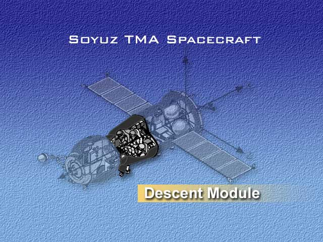 This graphic highlights the Soyuz spacecraft's Descent Module.